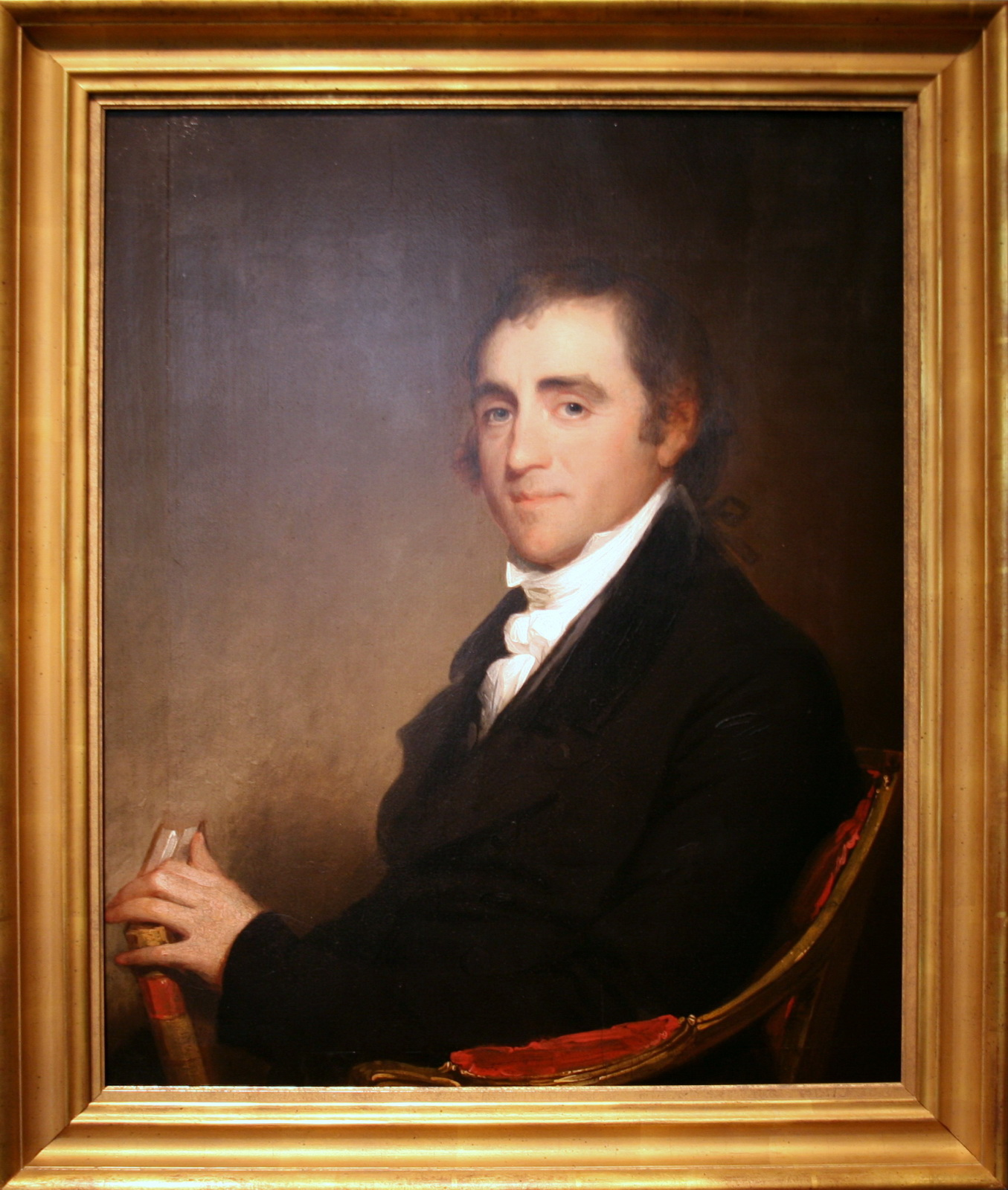 Oil on canvas painting of Fisher Ames; size without frame 77.5×64.1 cm.